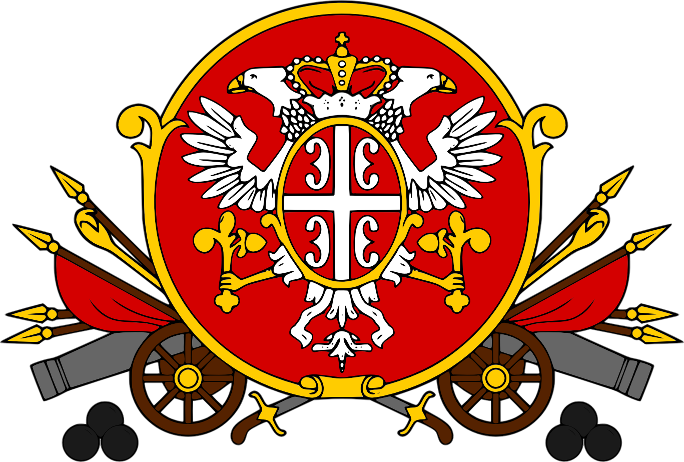 Coat of Arms of Jakov Nenadovic from his Tower in Valjevo.